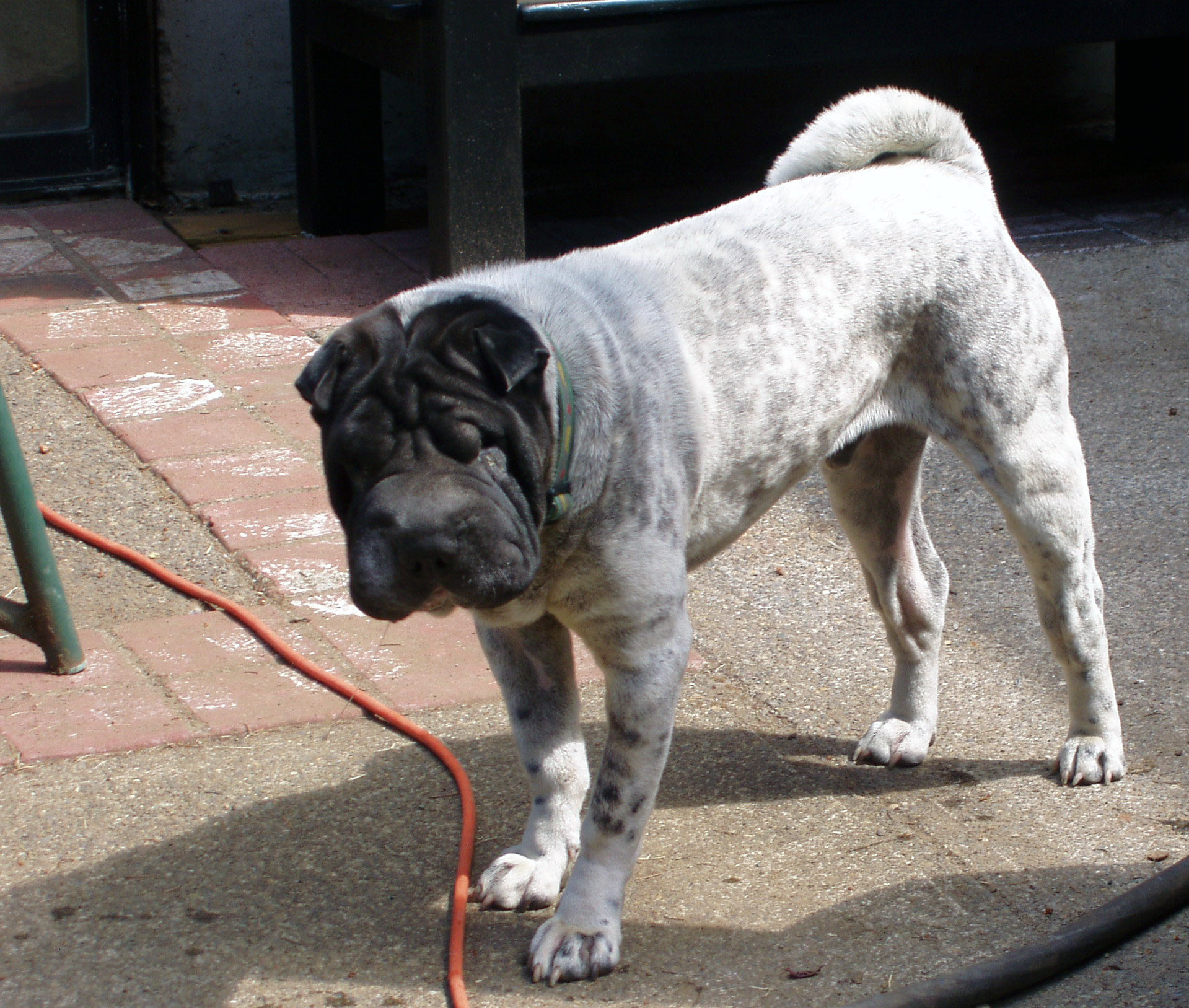 Self-created work of a black and white Shar pei